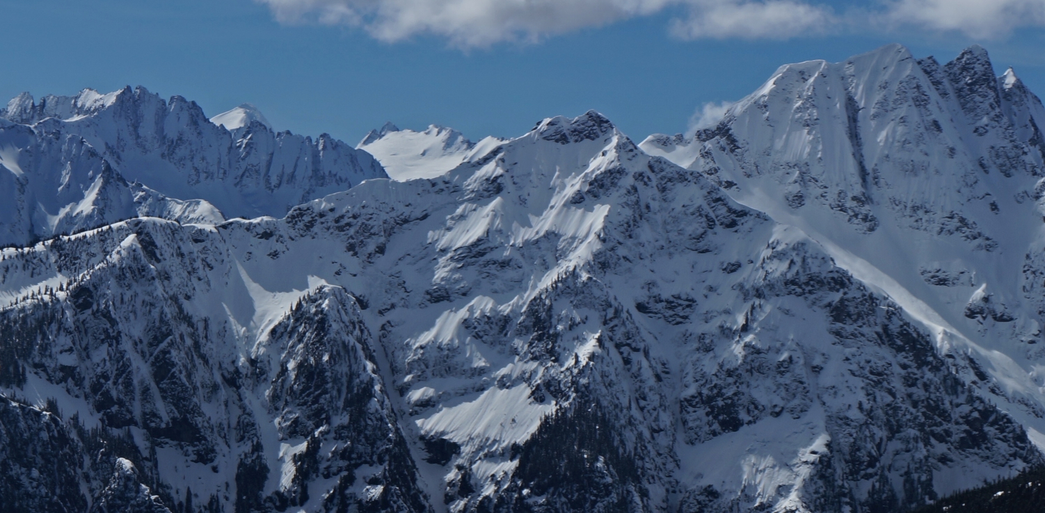 Styloid Peak centered in front. Viewed from Ruby Mountain in North Cascades National Park. WA State